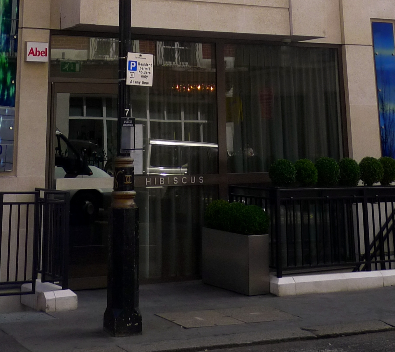 A very fine two Michelin-starred restaurant, easy to miss.